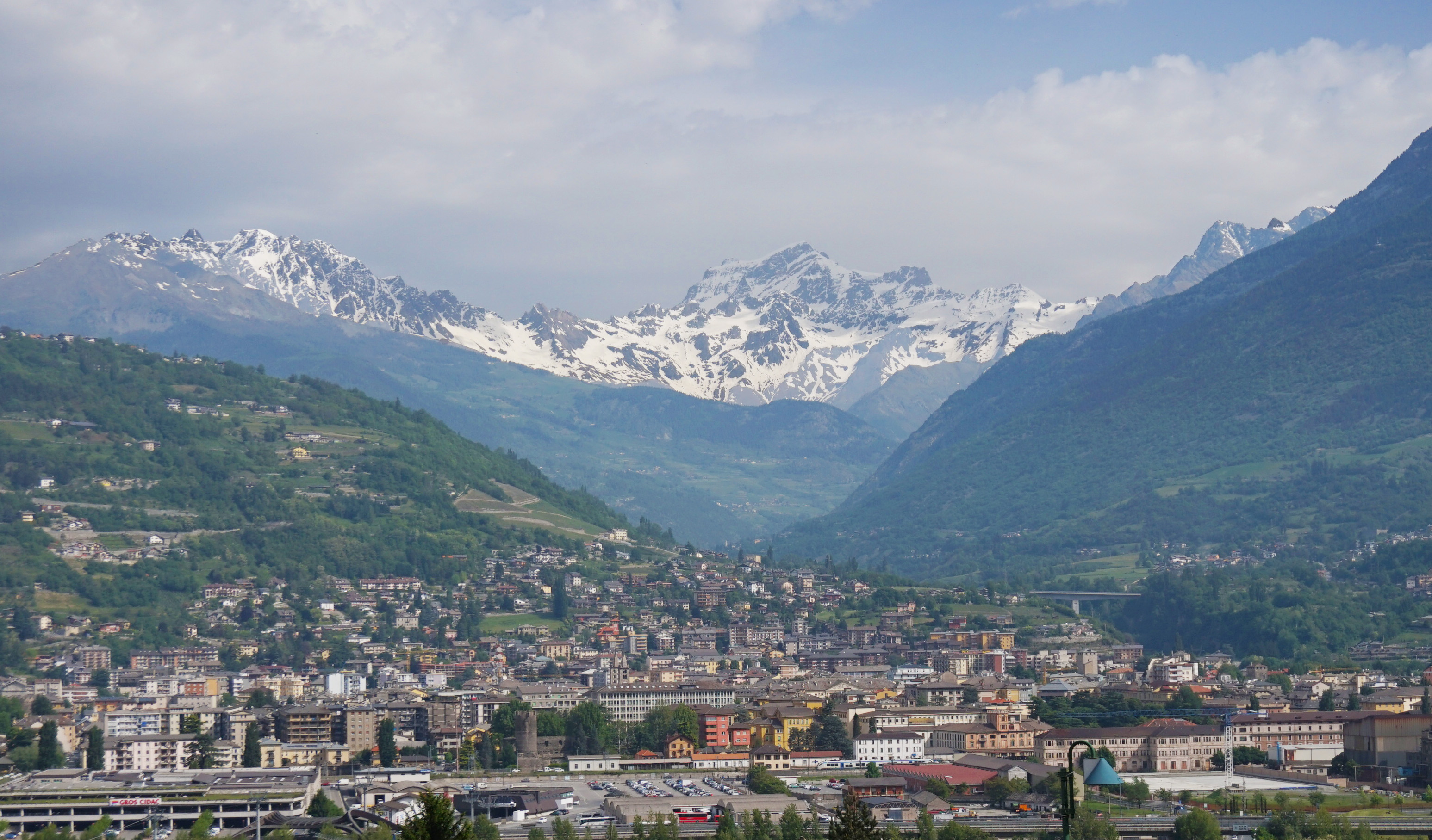 View of Aosta and Mountains.This photograph was taken with a Sony ILCE-5000